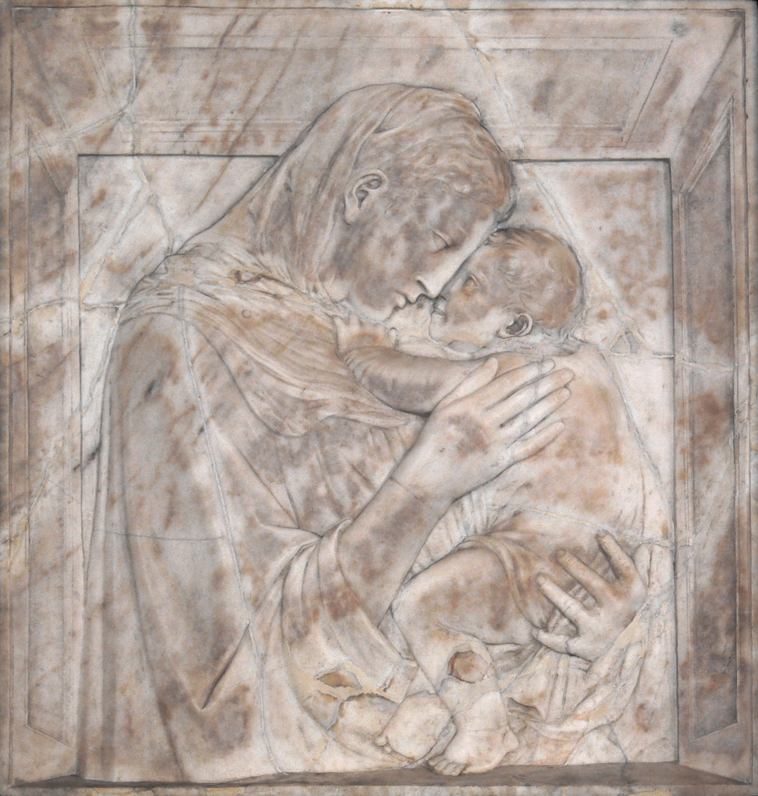 Madonna Pazzi, Florence (Firenze) c. 1420, marble, probably from the Palazzo Pazzi in Florence. Skulpturensammlung (Inv. 51, acquired in 1886), Bode-Museum, Berlin.